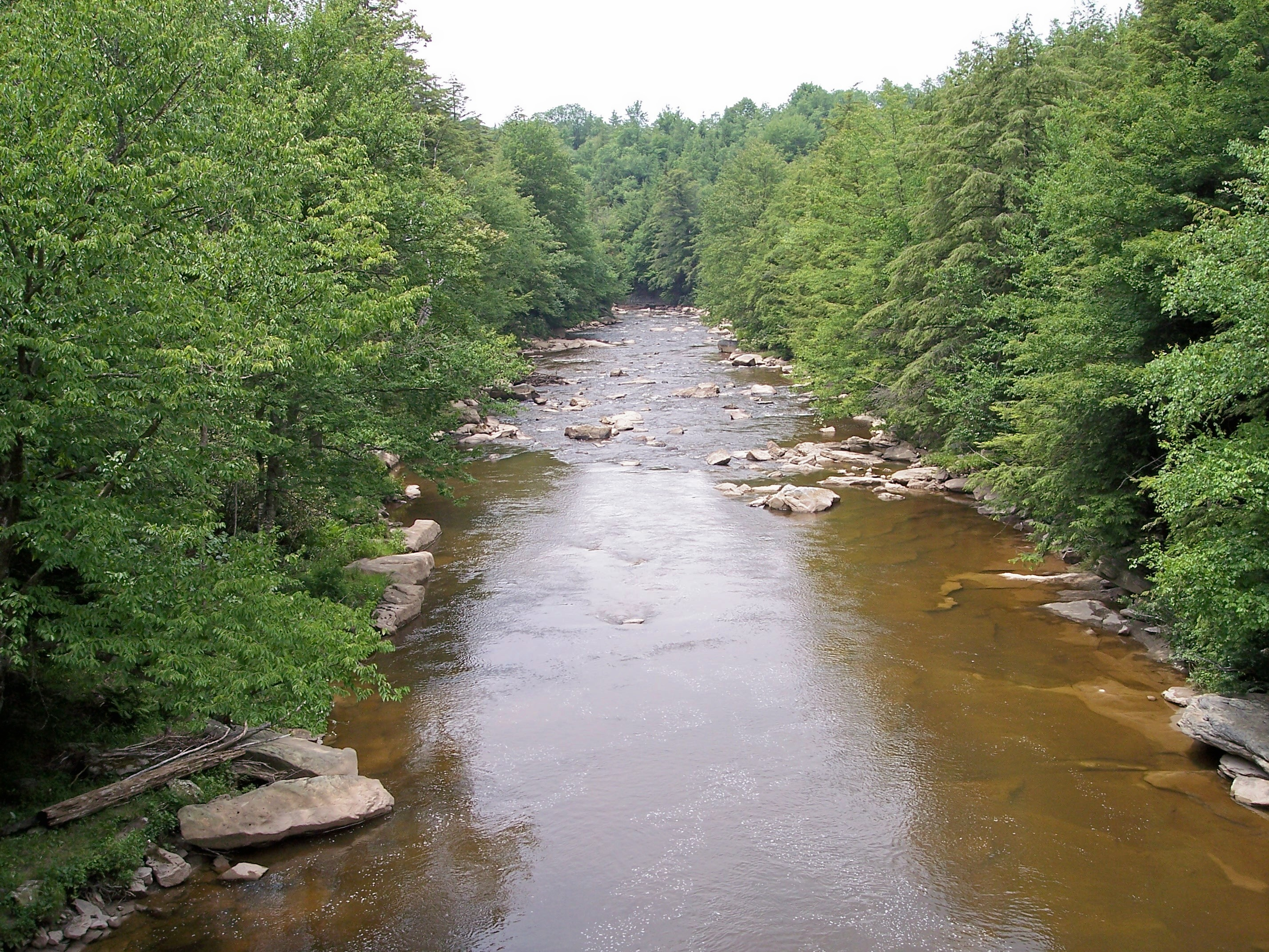 The Blackwater River in Blackwater Falls State Park near Davis in Tucker County, West Virginia